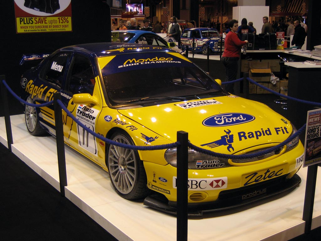 Racing version of Ford Mondeo Mk II for the 2000 BTCC season.